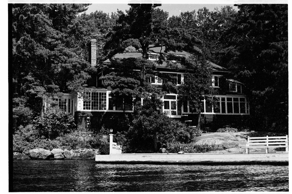 Photo of "Fairholm" the summer residence of James McKay, Pittsburgh industrialist.